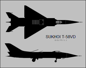 2-view silhouettes of the Sukhoi T-58VD STOL fighter prototype